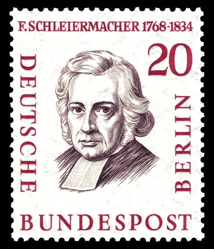 stamp series, men of the history of Berlin II, Friedrich Daniel Ernst Schleiermacher, (1768-1834)